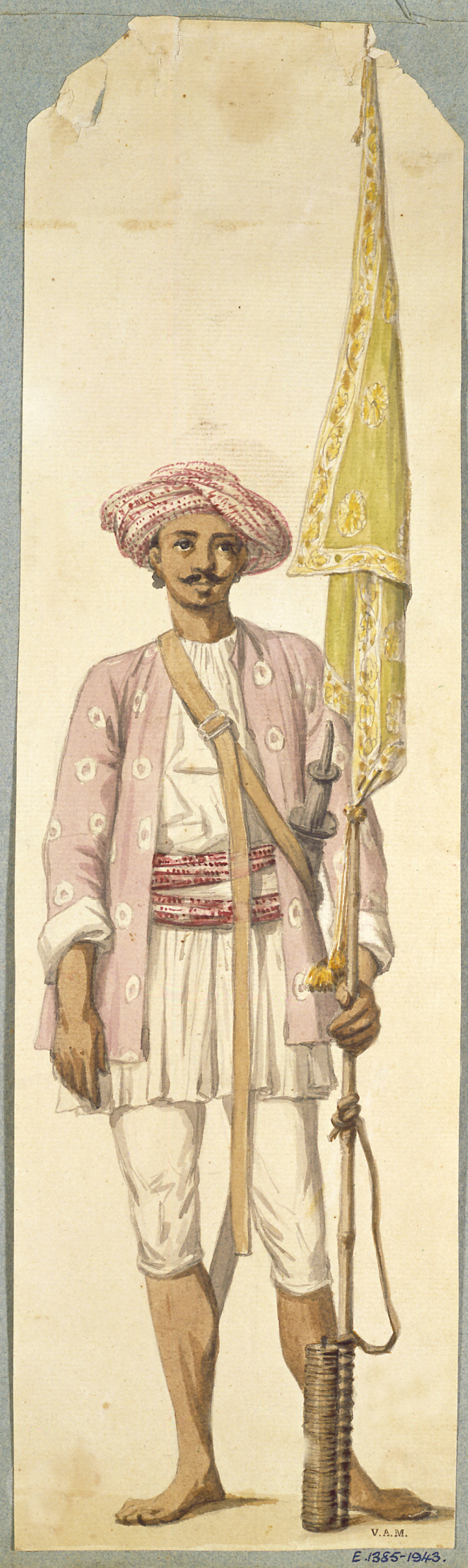 Physical description Indian soldier of Tipu Sultan's army, using his rocket as a flagstaff, by British artist Robert Home. The traditional costume of Tipu's infantry generally consists of a 'Tyger Jacket', a long purple woollen shirt with white diamond formed spots on it. On his head the soldier wears a red and white muslin turban, matching the red sash around his waist. Beneath his white trousers, his legs and feet are bare. Place of Origin Madras, India (made) Date 1793-1794 (made) Artist/maker Home, Robert, born 1752 - died 1834 (artist) Materials and Techniques Watercolour Dimensions Height: 15.8 cm corners cut; set within fold-over card mount, Width: 10.2 cm Descriptive line Painting by a British artist; Robert Home, Indian soldier (rocket man) of Tipu Sultan's army, using his rocket as a flagstaff, Madras, 1793-1794. Bibliographic References (Citation, Note/Abstract, NAL no) Buddle, Anne (1990) 'Tigers Round the Throne: The Court of Tipu Sultan (1750-1799)', Zamana Gallery Publication, London., pp.26, 55. Materials Paper; Gouache Subjects depicted Man; Rocket Categories Paintings Collection code IND